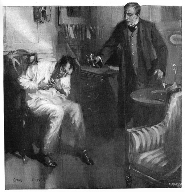 Pall Mall's illustration for E. W. Hornung's Raffles short story "A Bad Night" by Cyrus Cuneo. This story was first published in Pall Mall Magazine in the June 1905 issue. The cricket match places this story in 1896, although Bunny should have been in prison, and Raffles in Italy at that time.